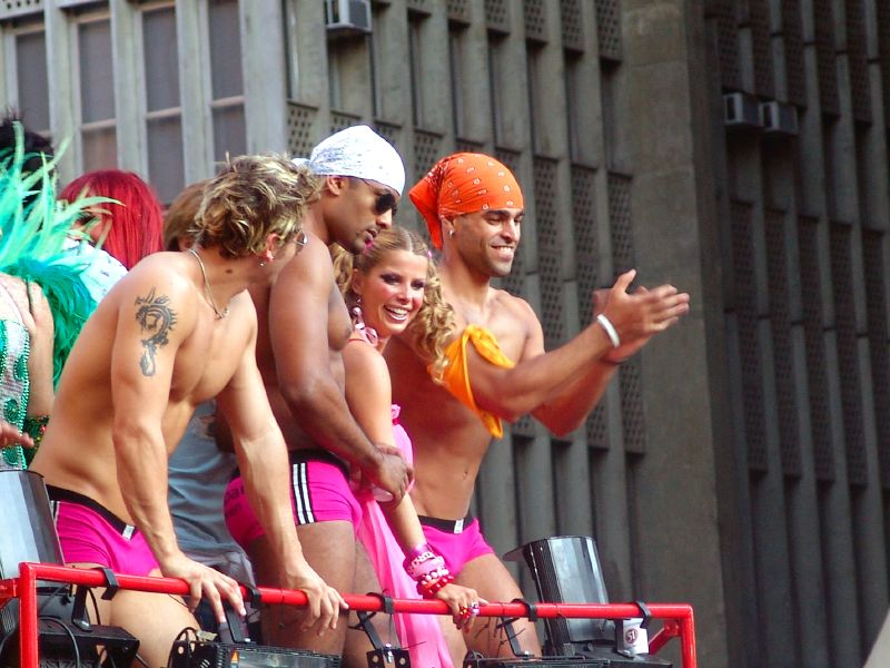 Karina Bacchi and 3 men in speedos on the Gay Pride 2005 in Sao Paulo, Brazil